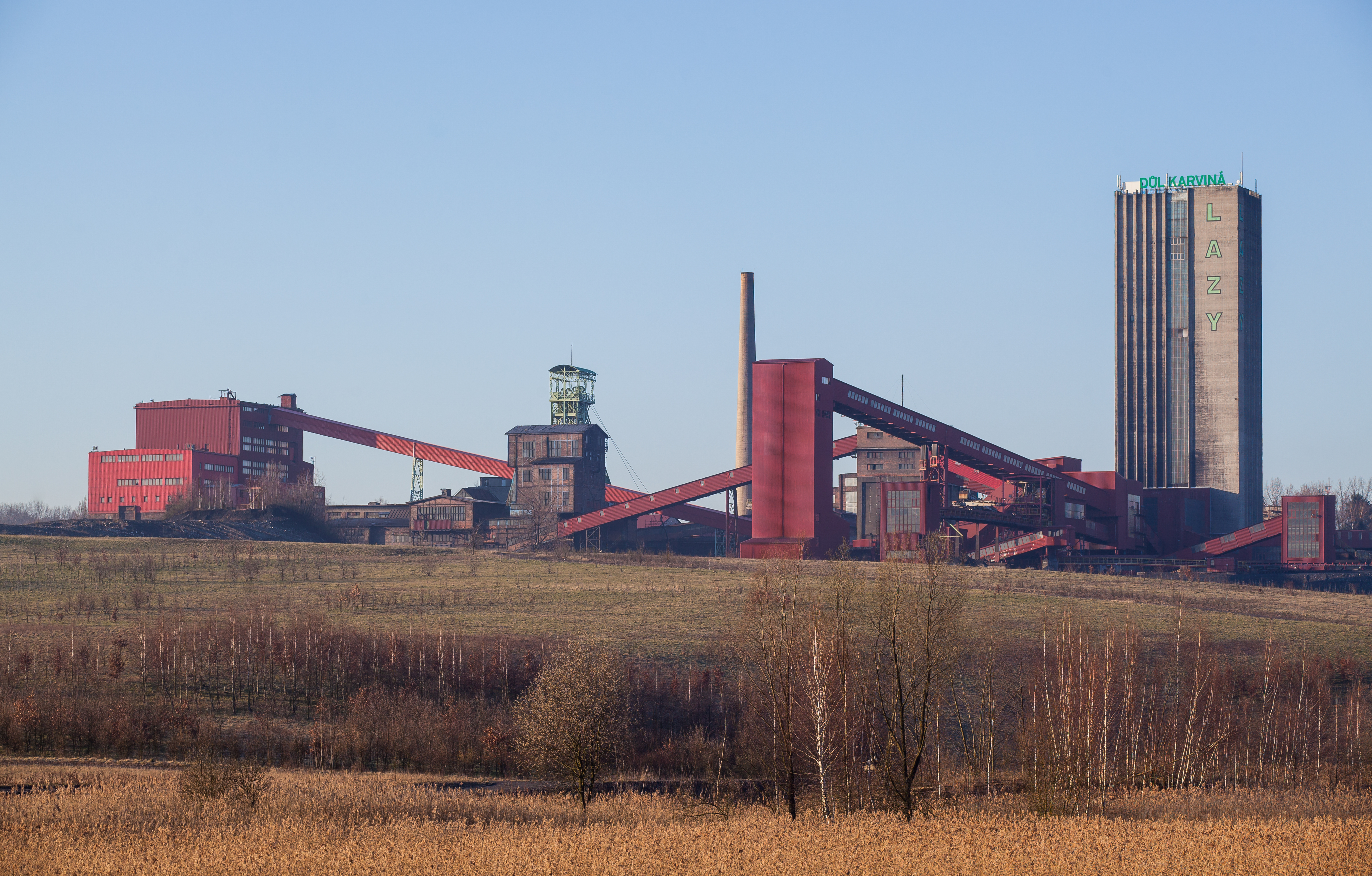 Mine "Lazy" in Orlová-Lazy, Karviná District, Moravian-Silesian Region, Czechia during the April morning in 2020